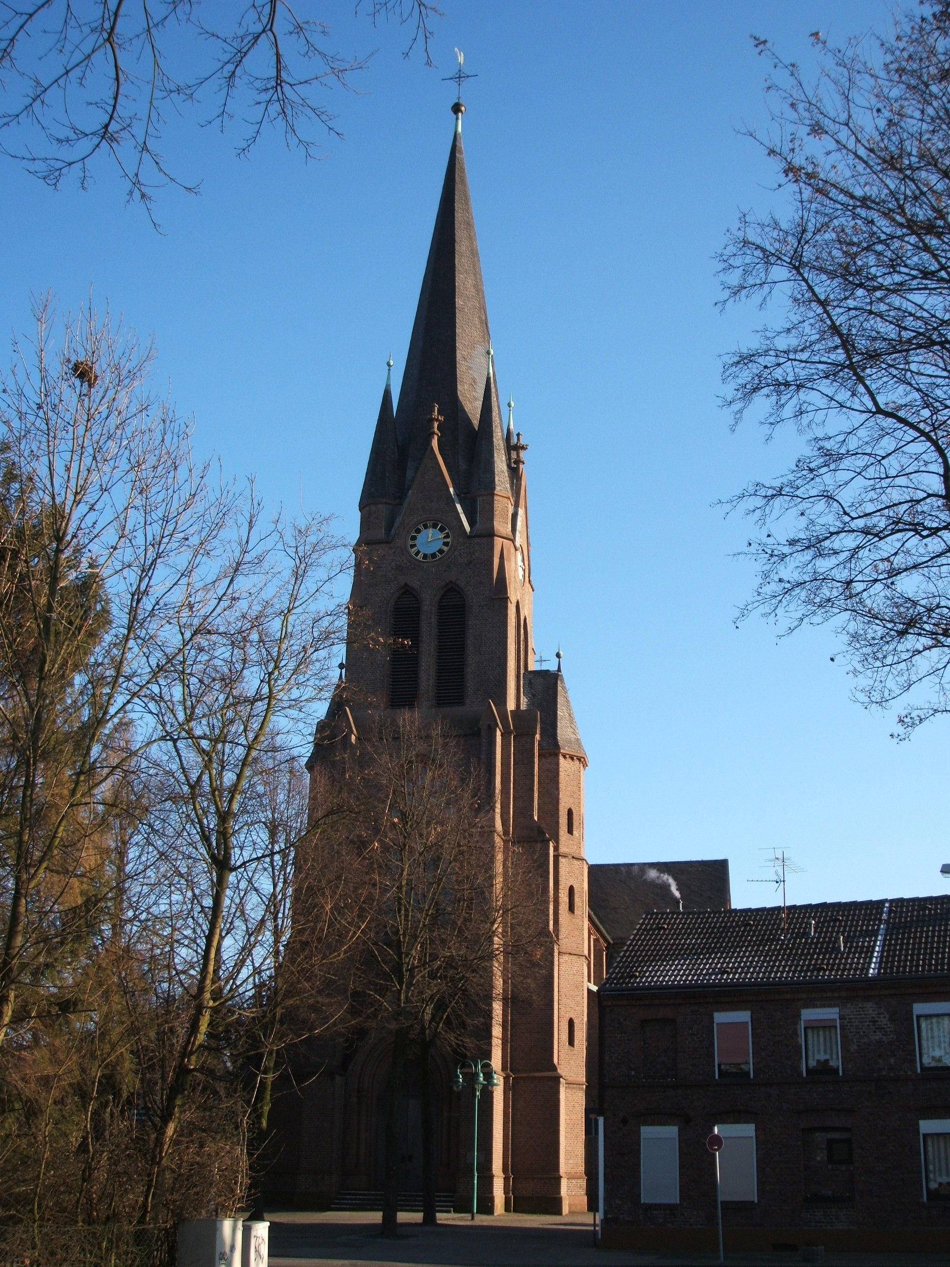 Front view of church St. Peter and Paul in Duisburg-Huckingen (Germany)